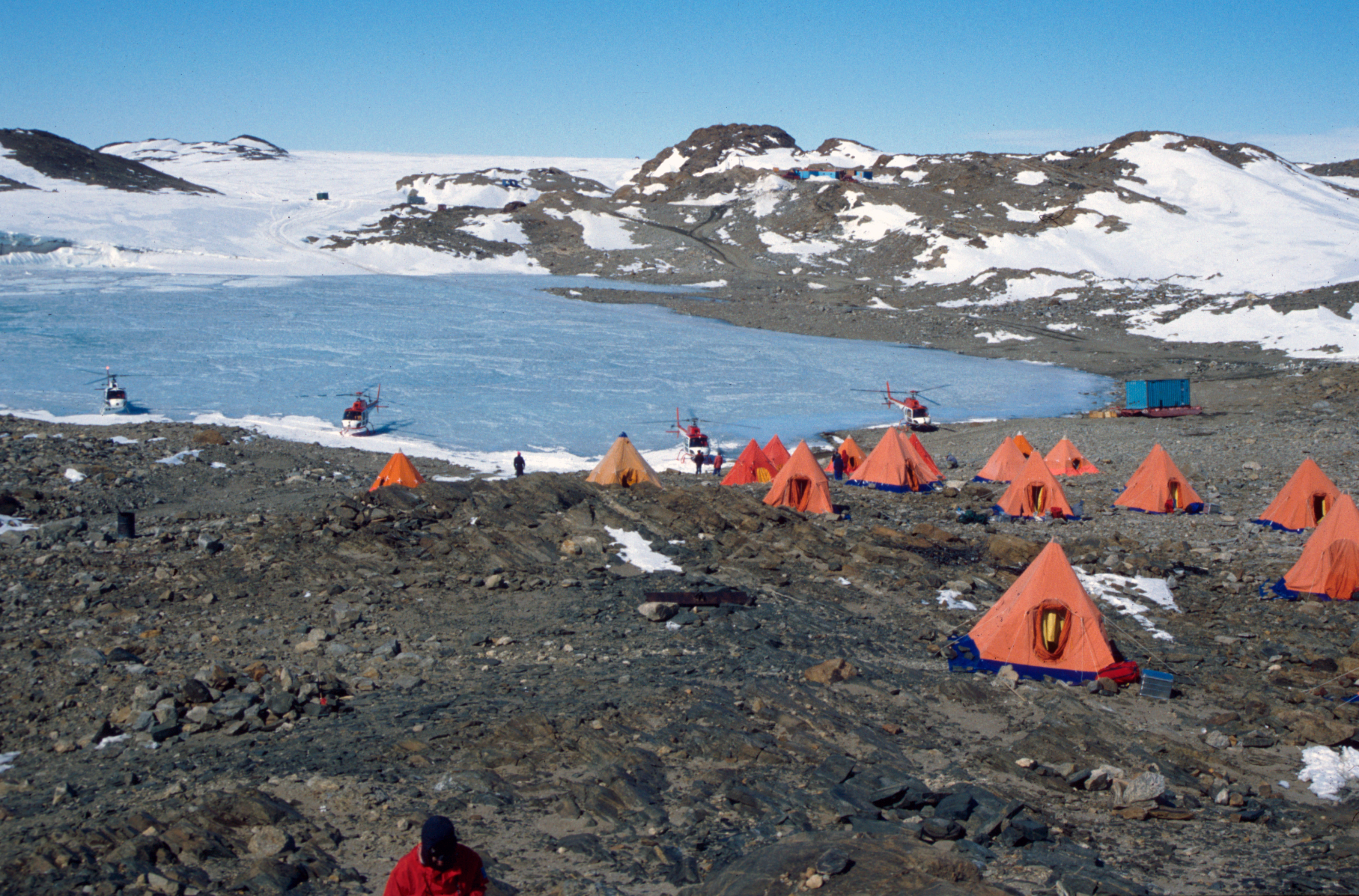 Base camp of the GeoMaud expedition in the Schirmacher Oasis, Antarctica